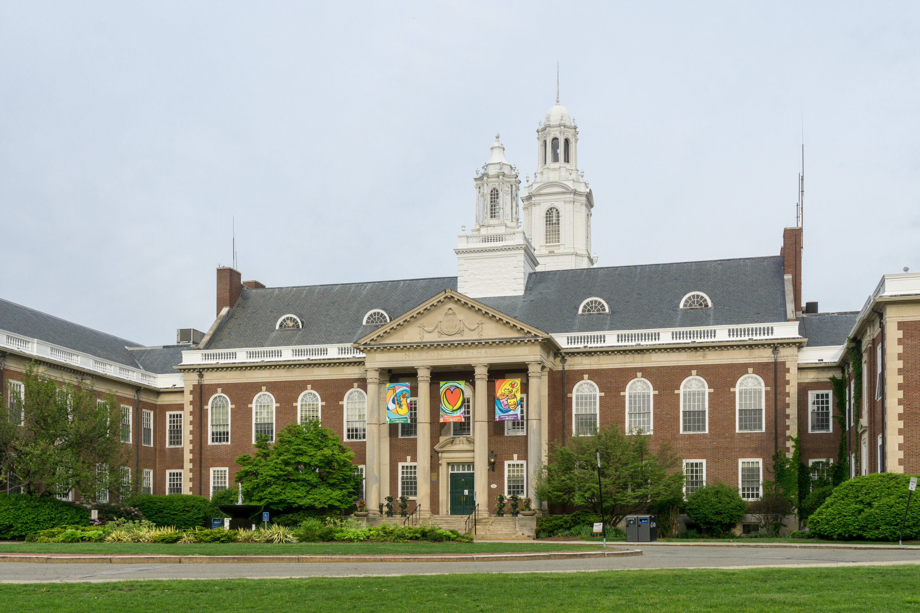 Newton City Hall in Massachusetts, closer view